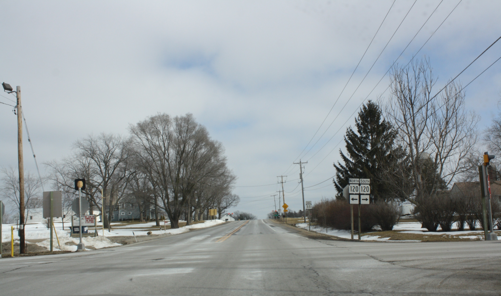 Looking south at the intersection of Wisconsin Highway 120 and Wisconsin Highway 11 in the community of Spring Prairie, Wisconsin.